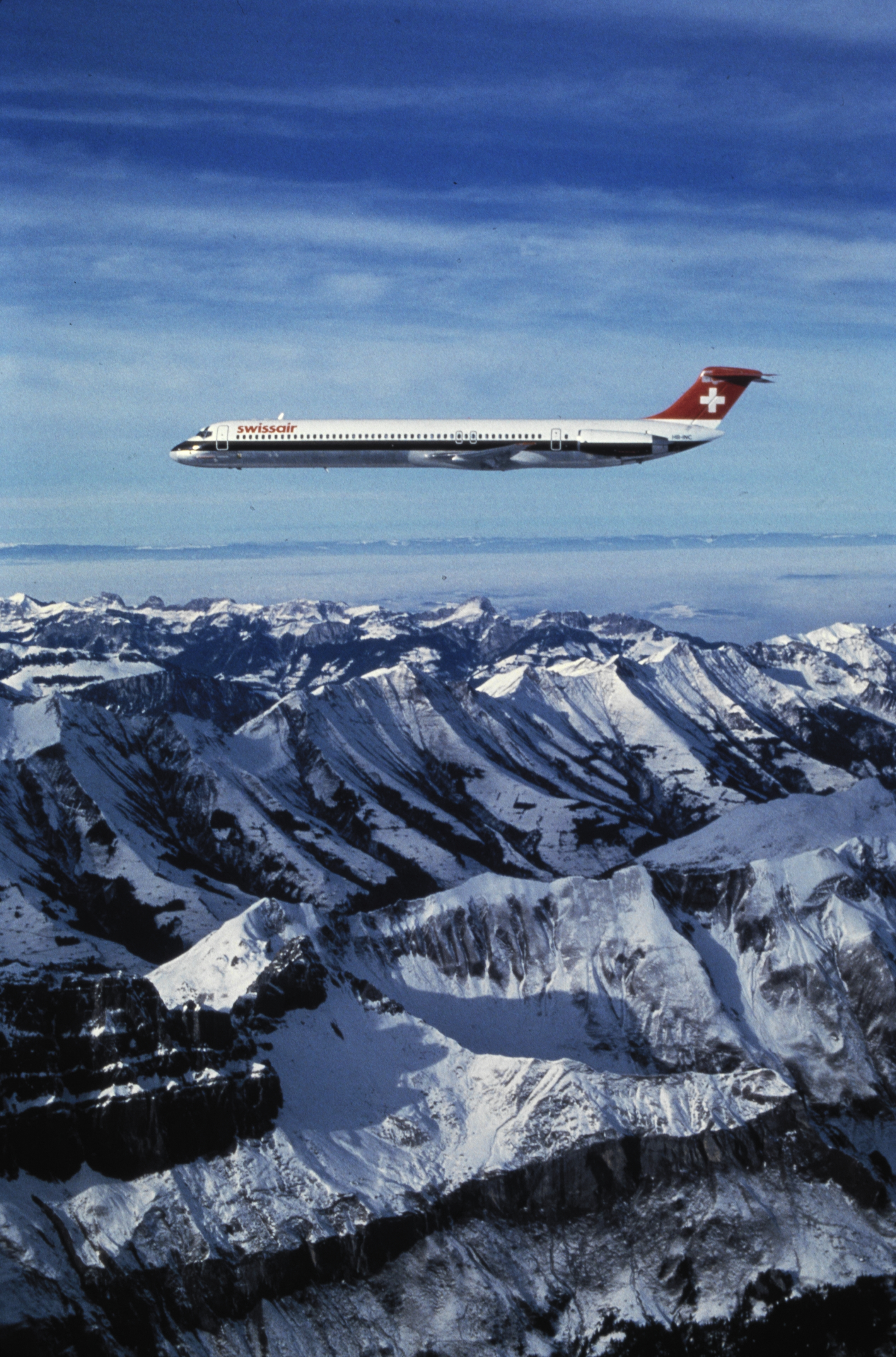 Swissair, McDonnell Douglas DC-9-81, HB-INC "Thurgau" over Switzerland